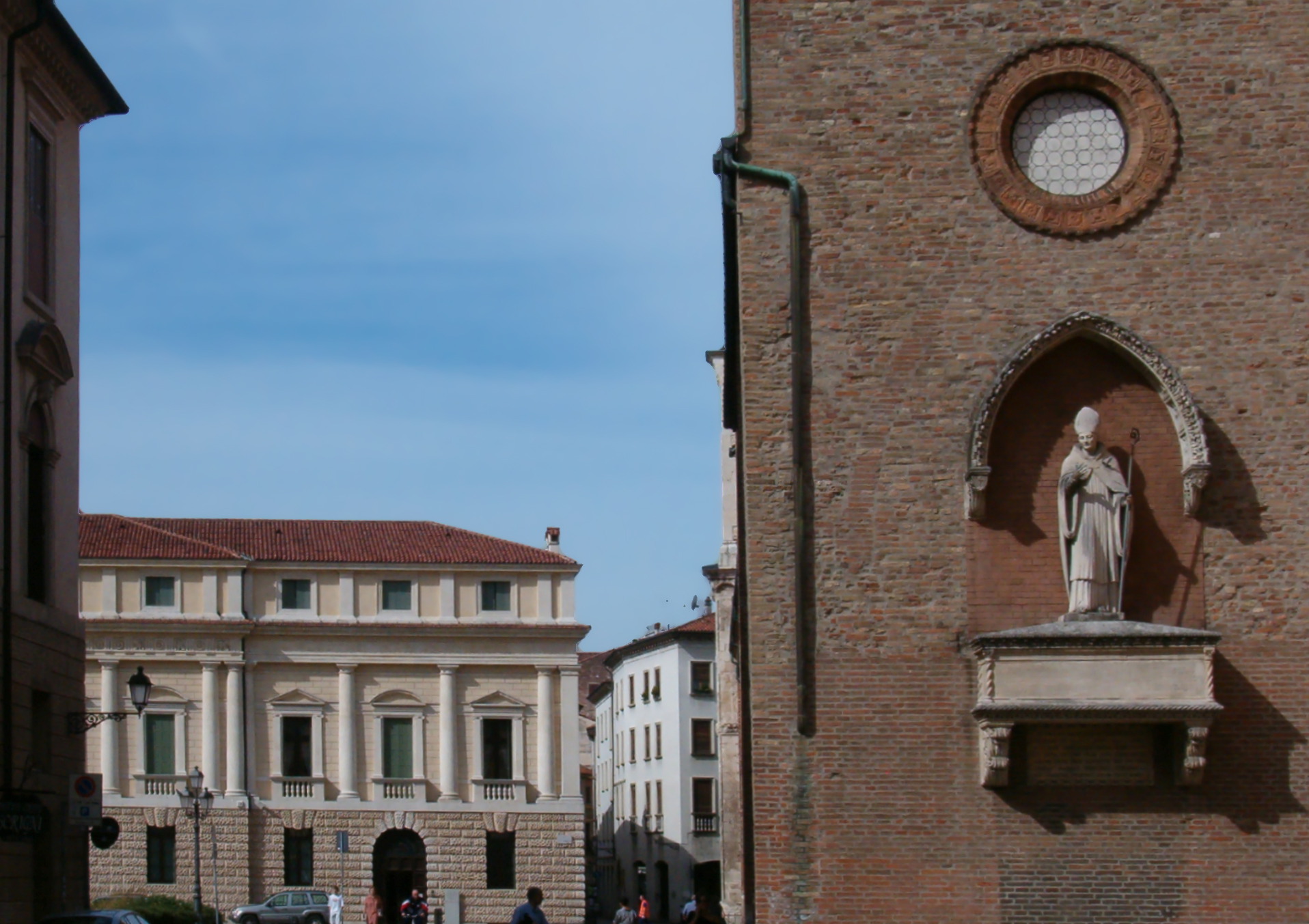 Cathedral of Vicenza (right) and Palazzo Vescovile (left).